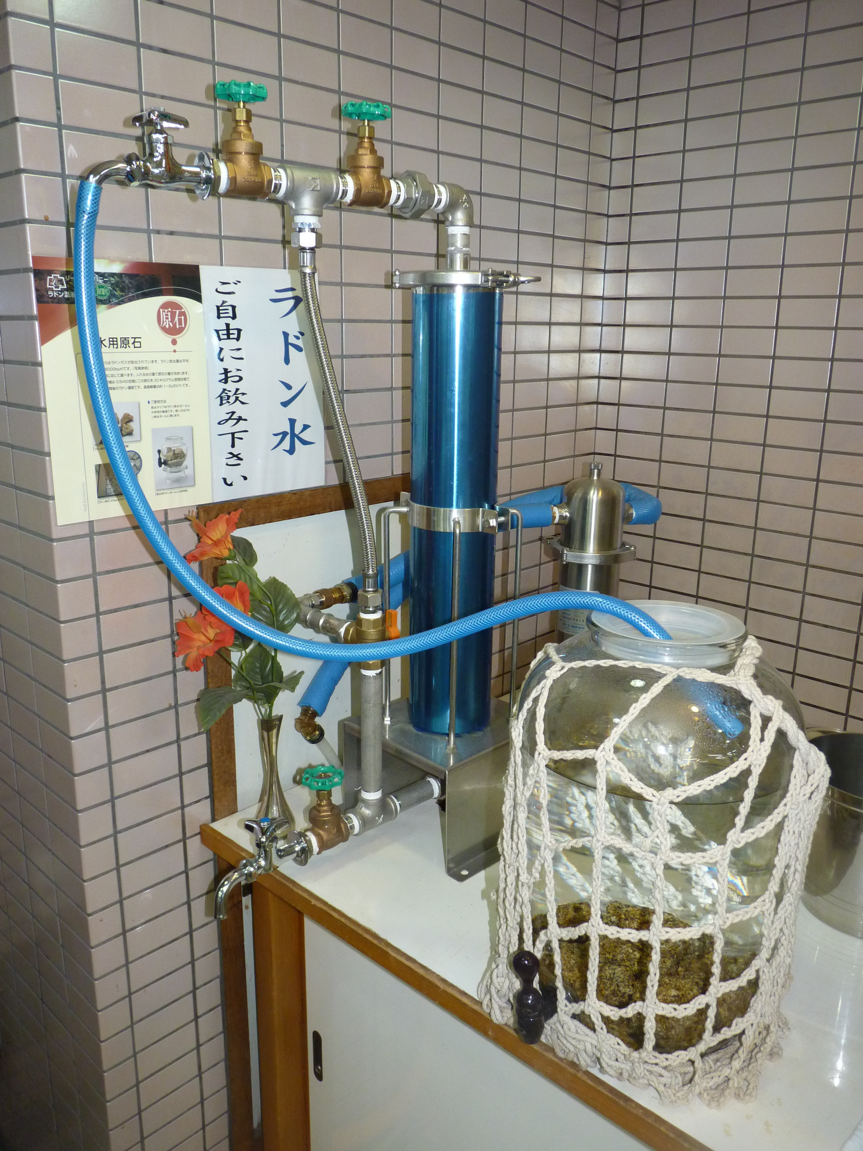 A system for (supposedly) diluting Radon into drinking water. Seen in the dining hall at Suimeiso Hotel, Mizusawa, Iwate, Japan.